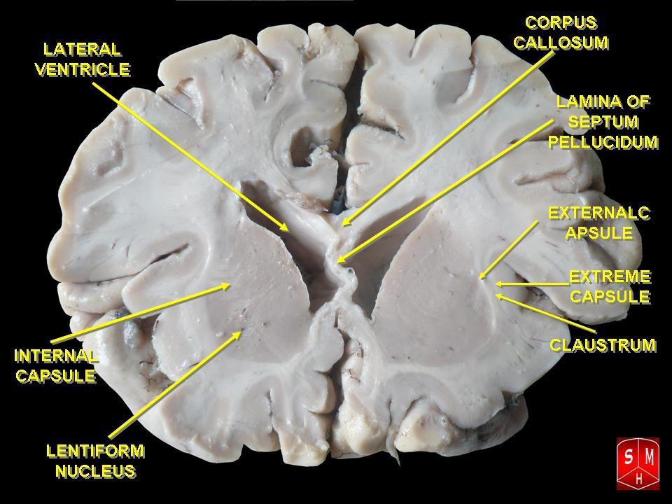 Frontal section of brain